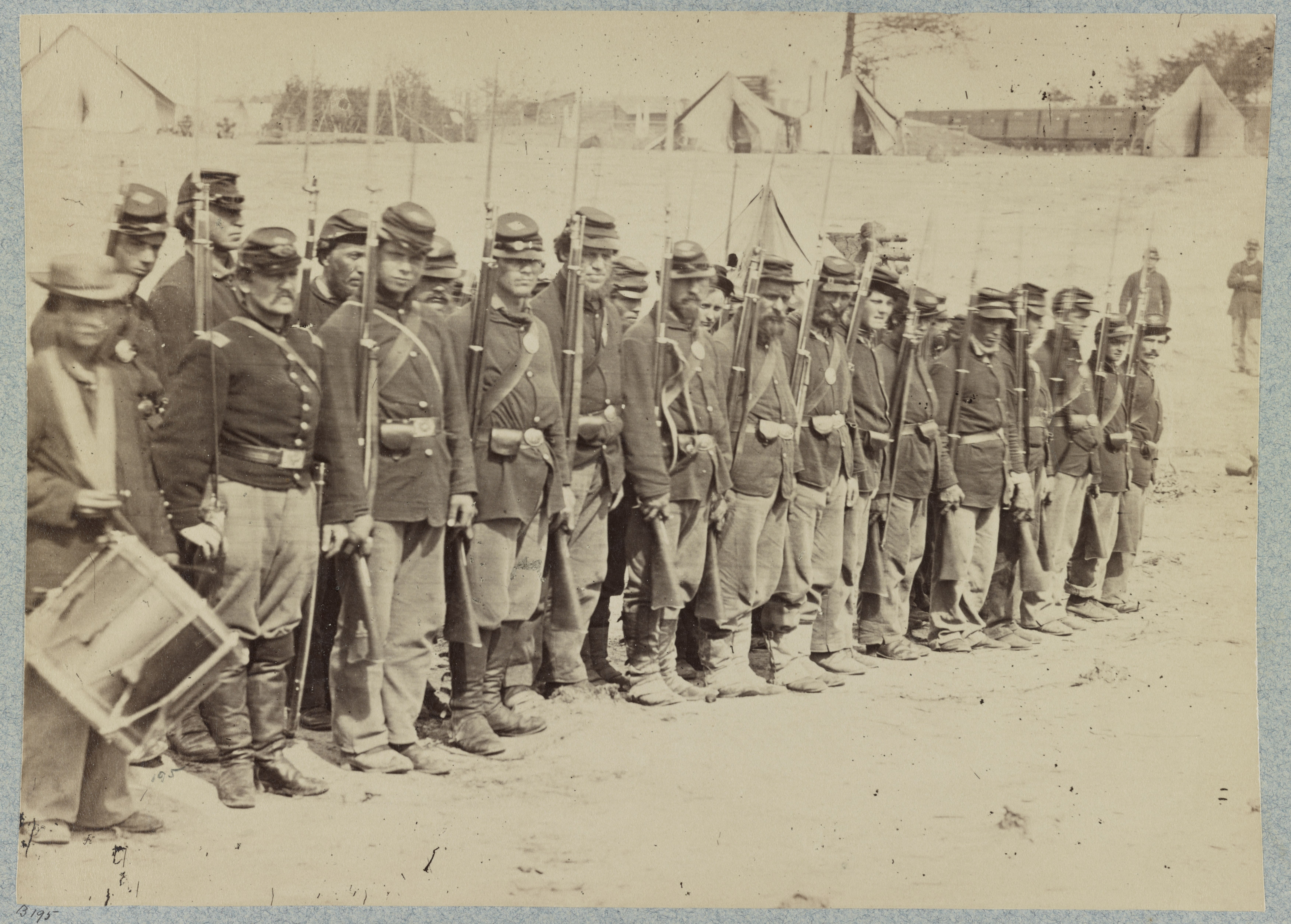 Title: Co. C, 110th Pennsylvania Infantry after battle of Fredericksburg, Va Physical description: 1 photographic print on card mount : albumen. Notes: Hand written on verso: "Miller, vol. 8, p. 203".; No. B195.; Gift; Col. Godwin Ordway; 1948.; Title from item.